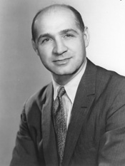 former congressman Emilio Q. Daddario of Connecticut